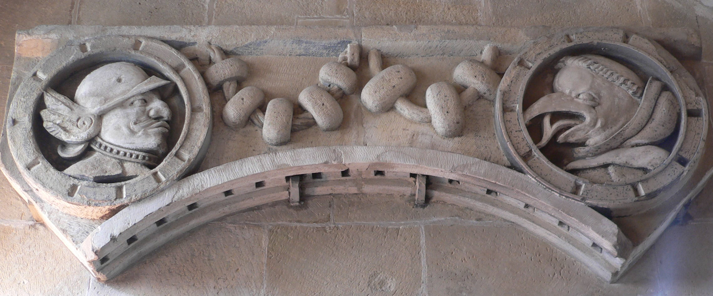 Medaillons (originals) in the westhall of the Church Kilianskirche of Heilbronn - Germany, 2007, by J. Köhler